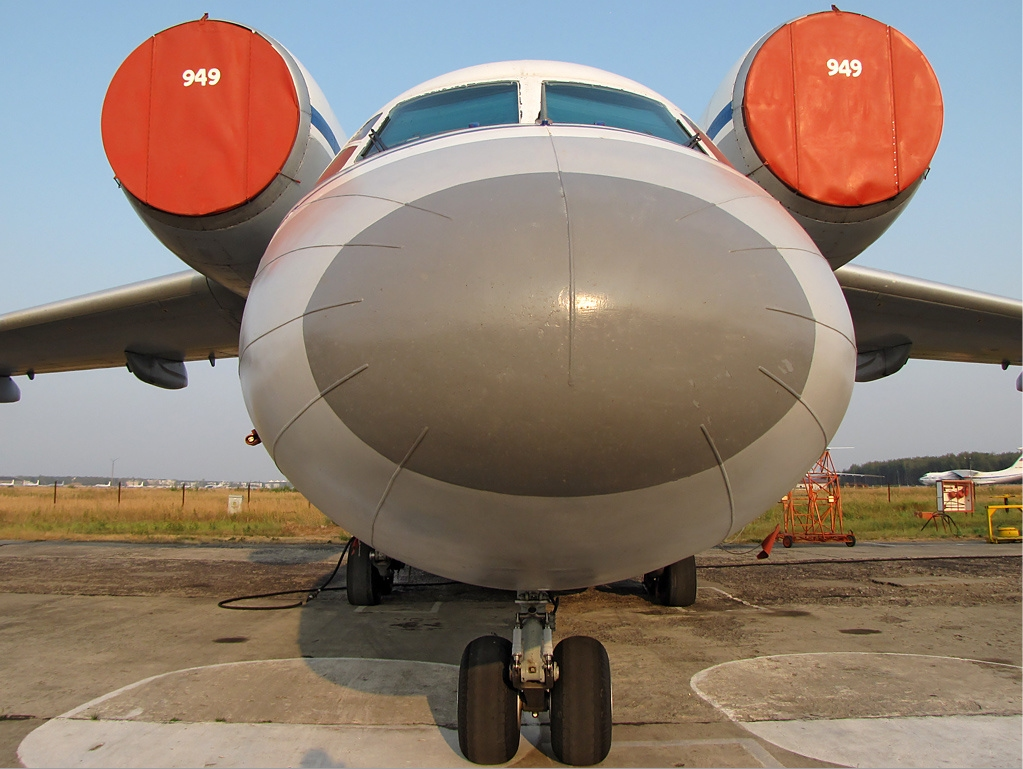 Antonov An-72 of the Russian Air Force at Chkalovsky Airport.